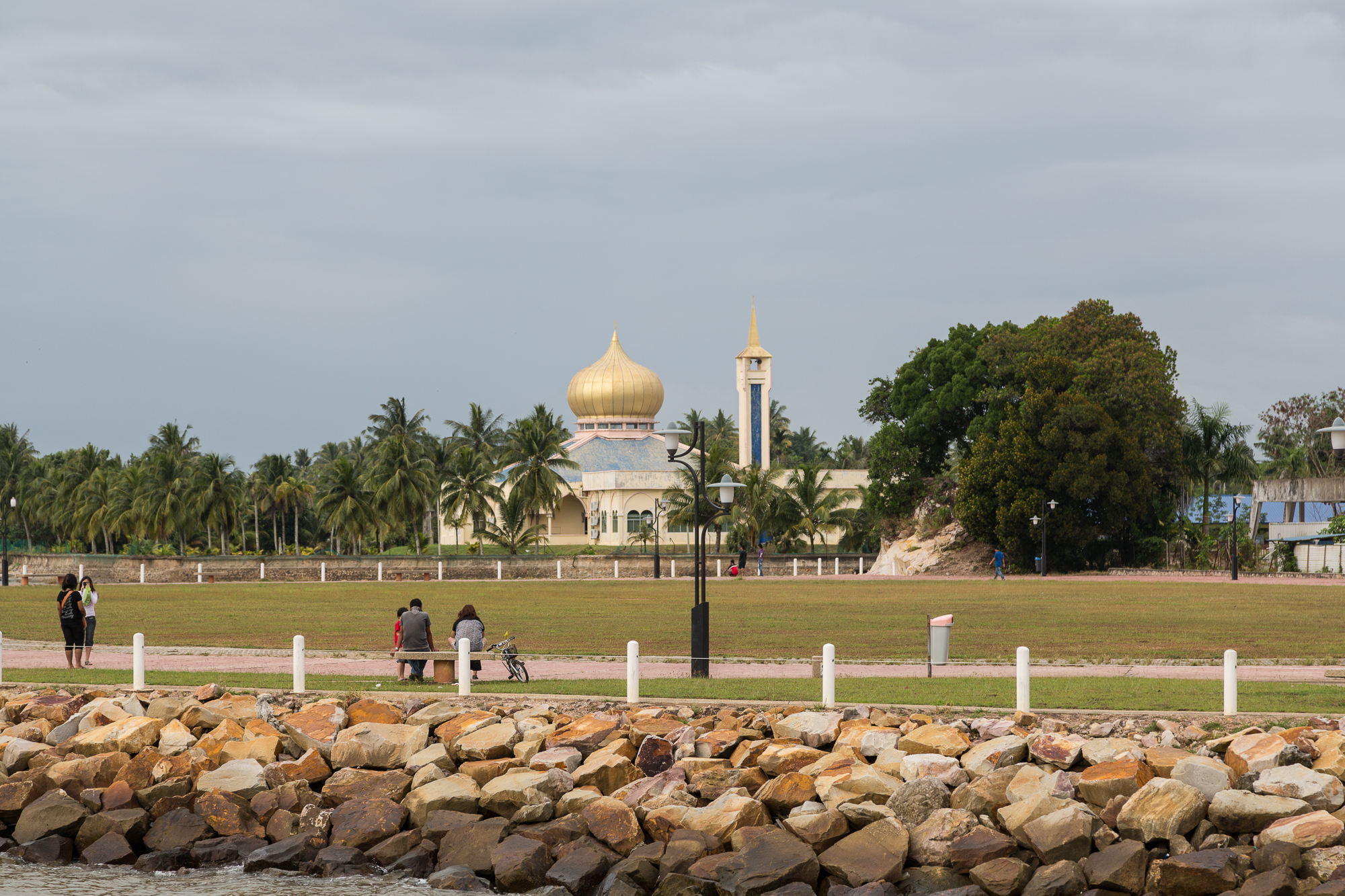 Sipitang, Sabah: Haji Hassim Mosque and in the foreground Esplanad Sipitang